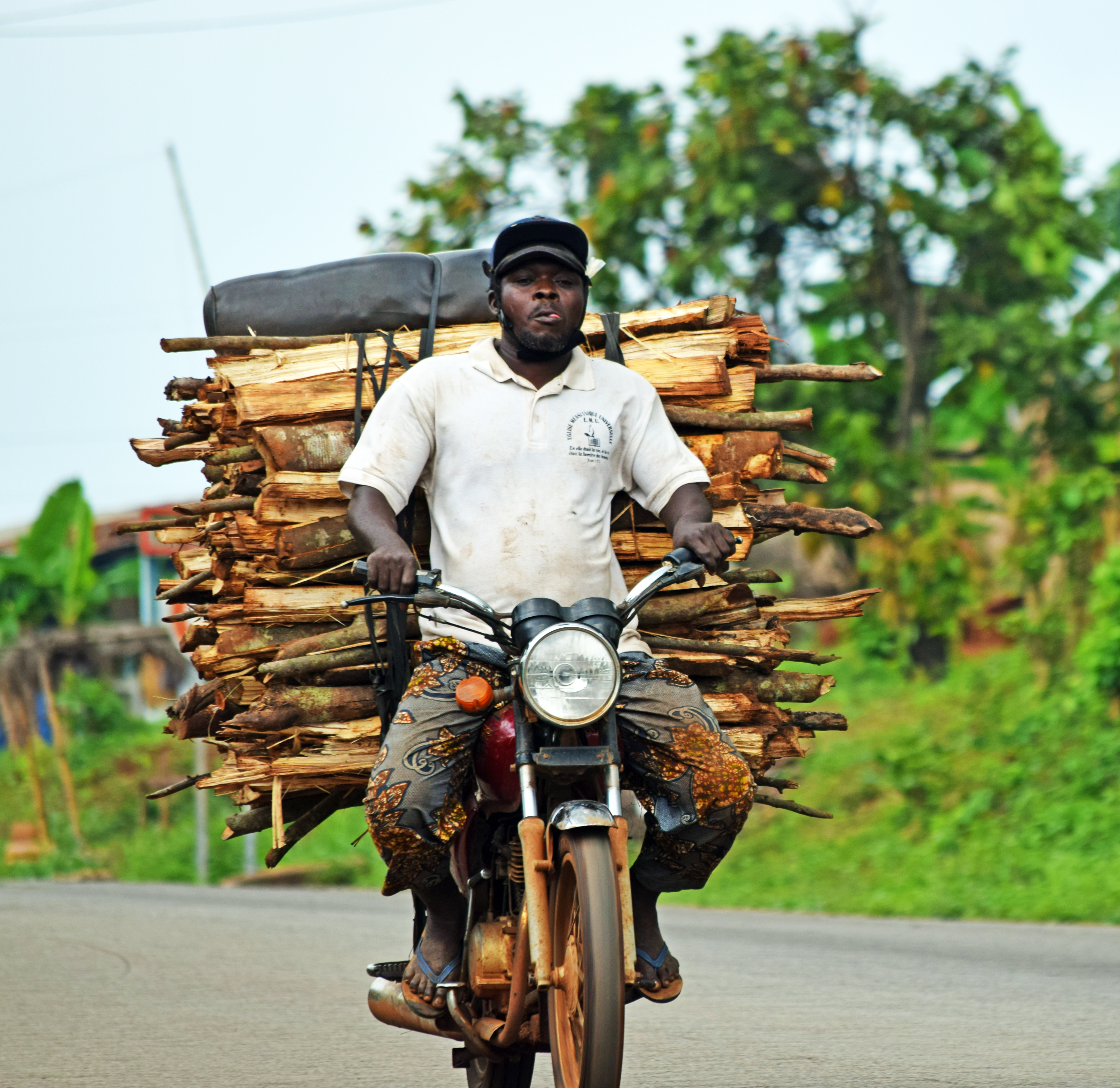 Transport of wood in the Ouémé. Photo taken on the Adjohoun Ifangnin road. This is an image with the theme "Africa on the Move or Transport" from: Benin